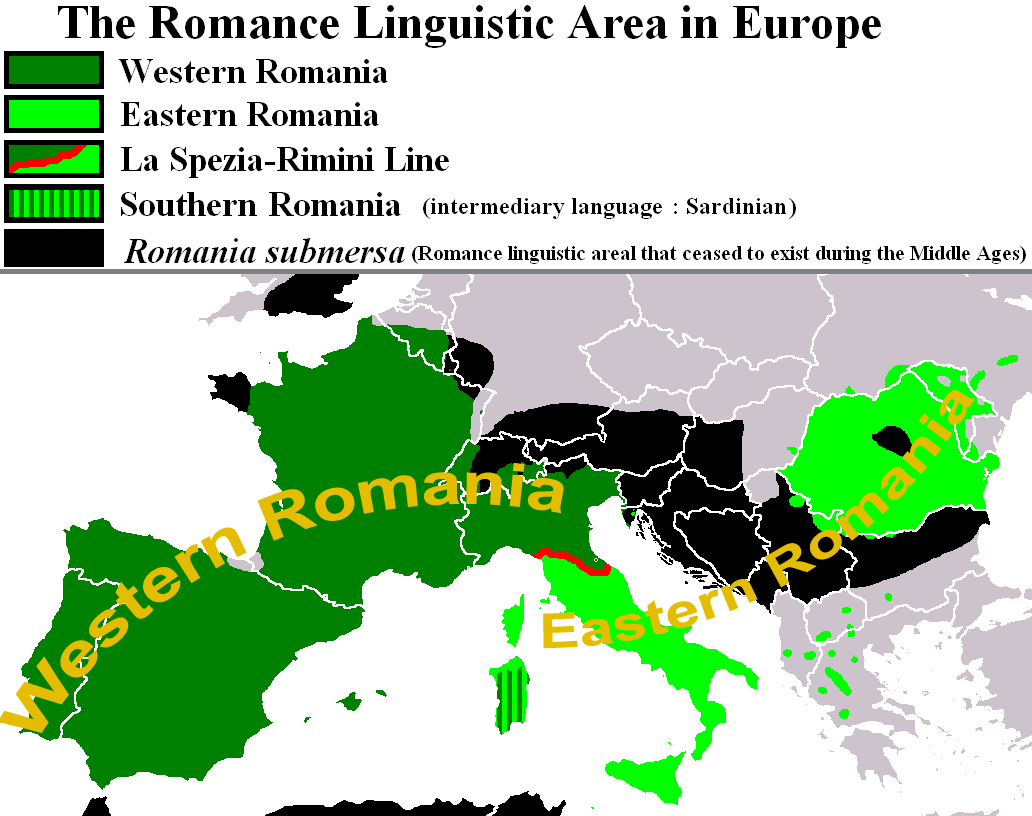 The Western and Eastern Romance linguistic areas.